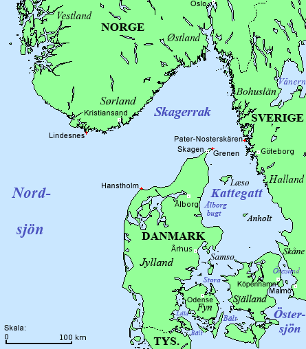 Map of Skagerrak and Kattegat (Denmark, Norway, Sweden). French names set. (Mercator-projection, data from 2005.)